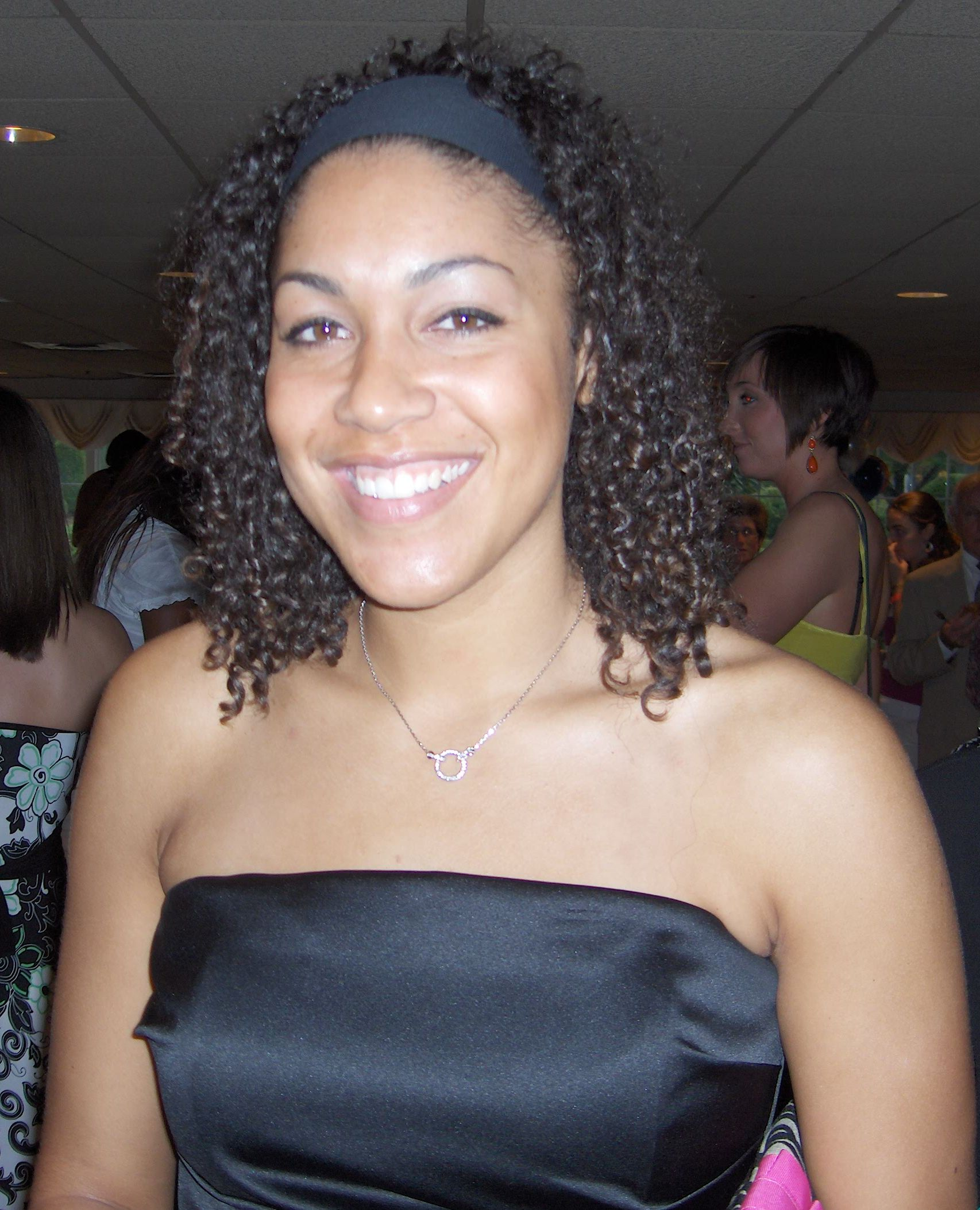 Marisa Moseley, incoming assistant coach, at Championship Dinner